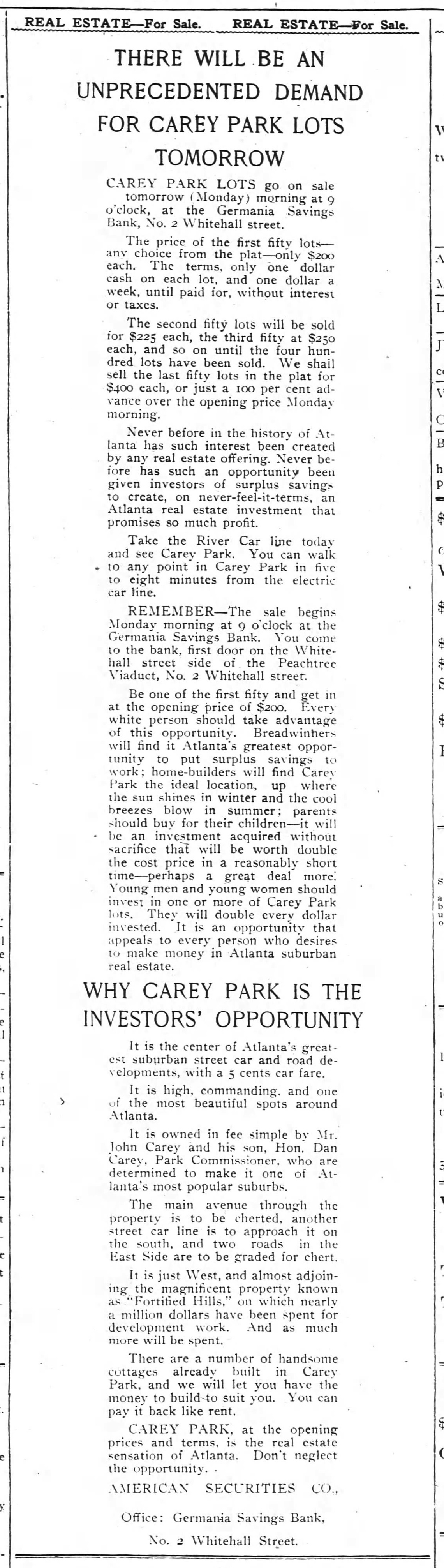 Ad for Carey Park Atlanta lot sales 1913-10-19